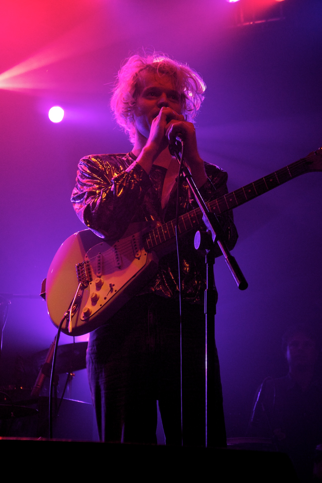 Connan Mockasin supporting Warpaint at The Junction, Cambridge in May 2011